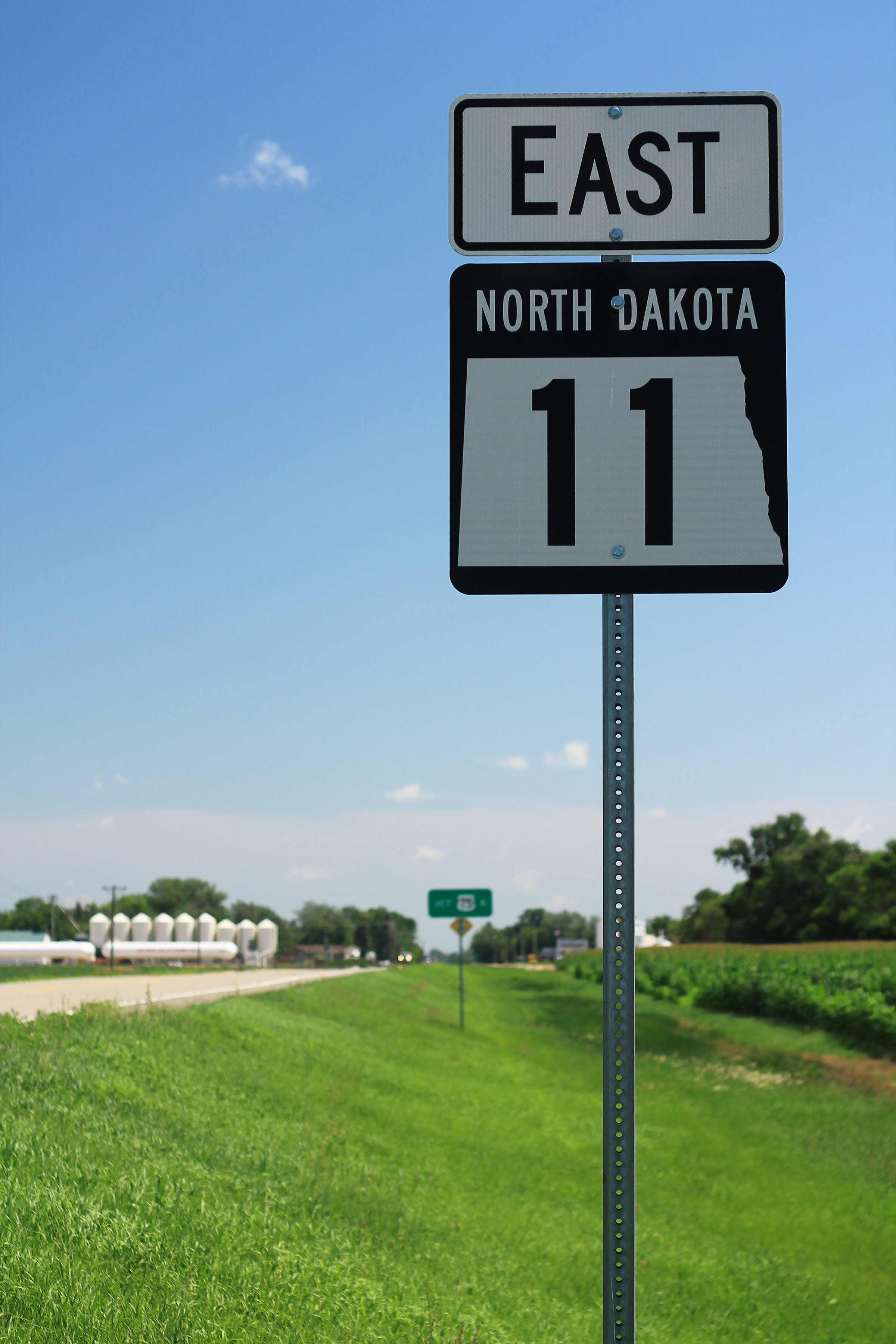 ND11 East Sign - New Style